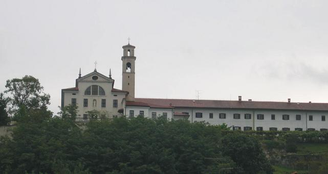 Franciscan monastary Kostanjevica, near Nova Gorica, Slovenia.